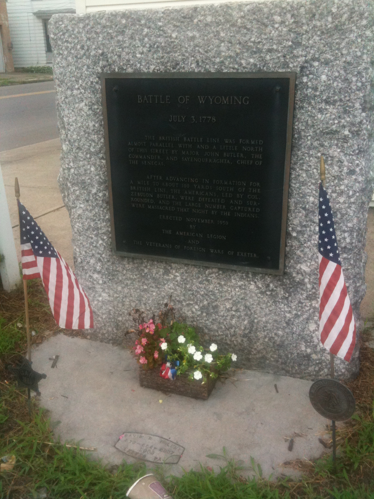 Marker indicating location of the Battle of Wyoming, located at the western corner of Wyoming Avenue and Valley Street, Exeter, Pennsylvania.